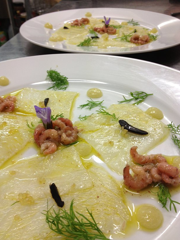 Carpaccio Baccalau